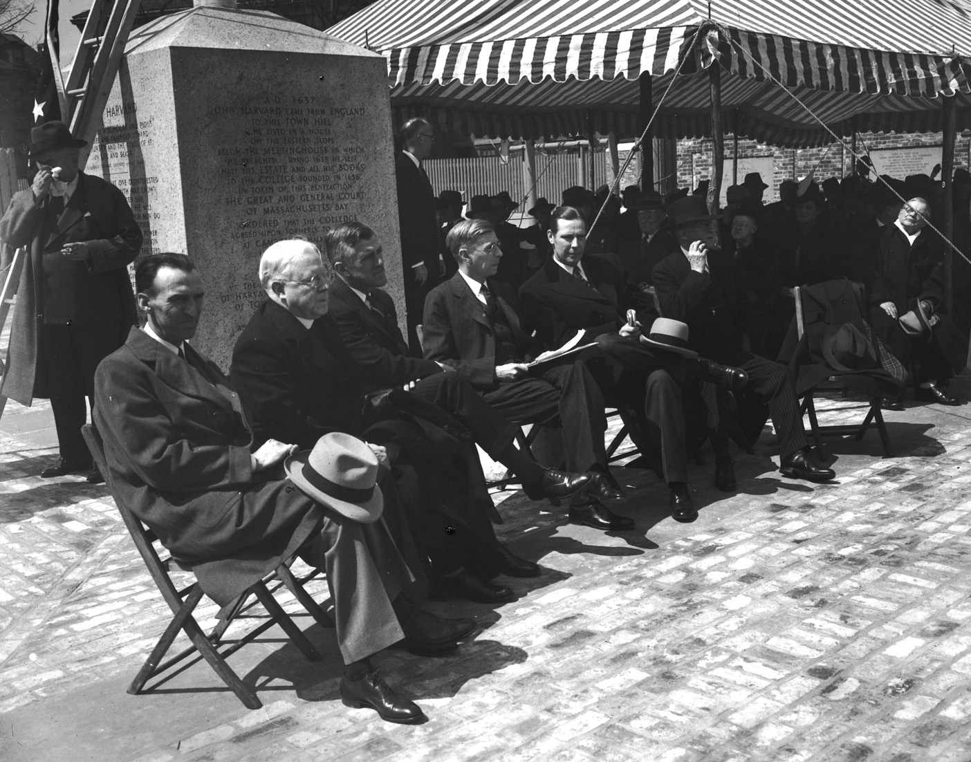 File name: CHA282F1 Local identifier: CHA-282-F1 Title: Dignitaries at the Dedication of the John Harvard Mall Creation date: May 2, 1943 Description: Dedication of the John Harvard Mall. Seated, left to right: City Councilor, Michael Leo Kingella; Reverend Frederic J. Allchin; Honorable Leverett B. Saltonstall, Governor; President James B. Conant of Harvard; Honorable Maurice J. Tobin, Mayor of Boston; Reverend Thomas W. Davison. Genre: Lantern slides Subjects: Charlestown, Massachusetts; Rutherford Avenue District Provenance: Courtesy of Harvard University Location: Boston Public Library, Charlestown Branch